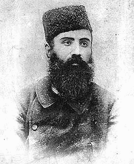 Bulgarian revolutionary from Ohrid, Hristo Uzunov